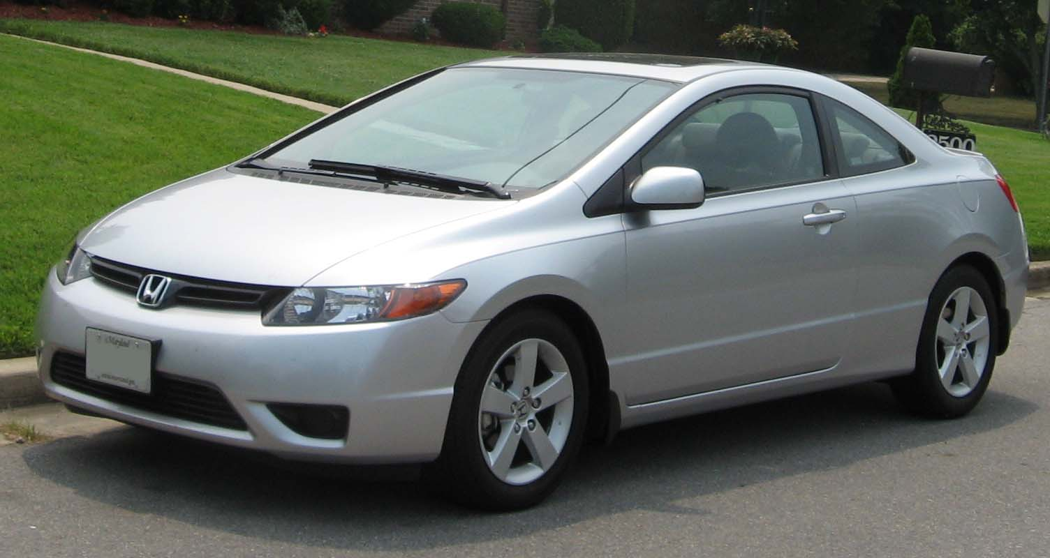 2006-2007 Honda Civic photographed in USA.